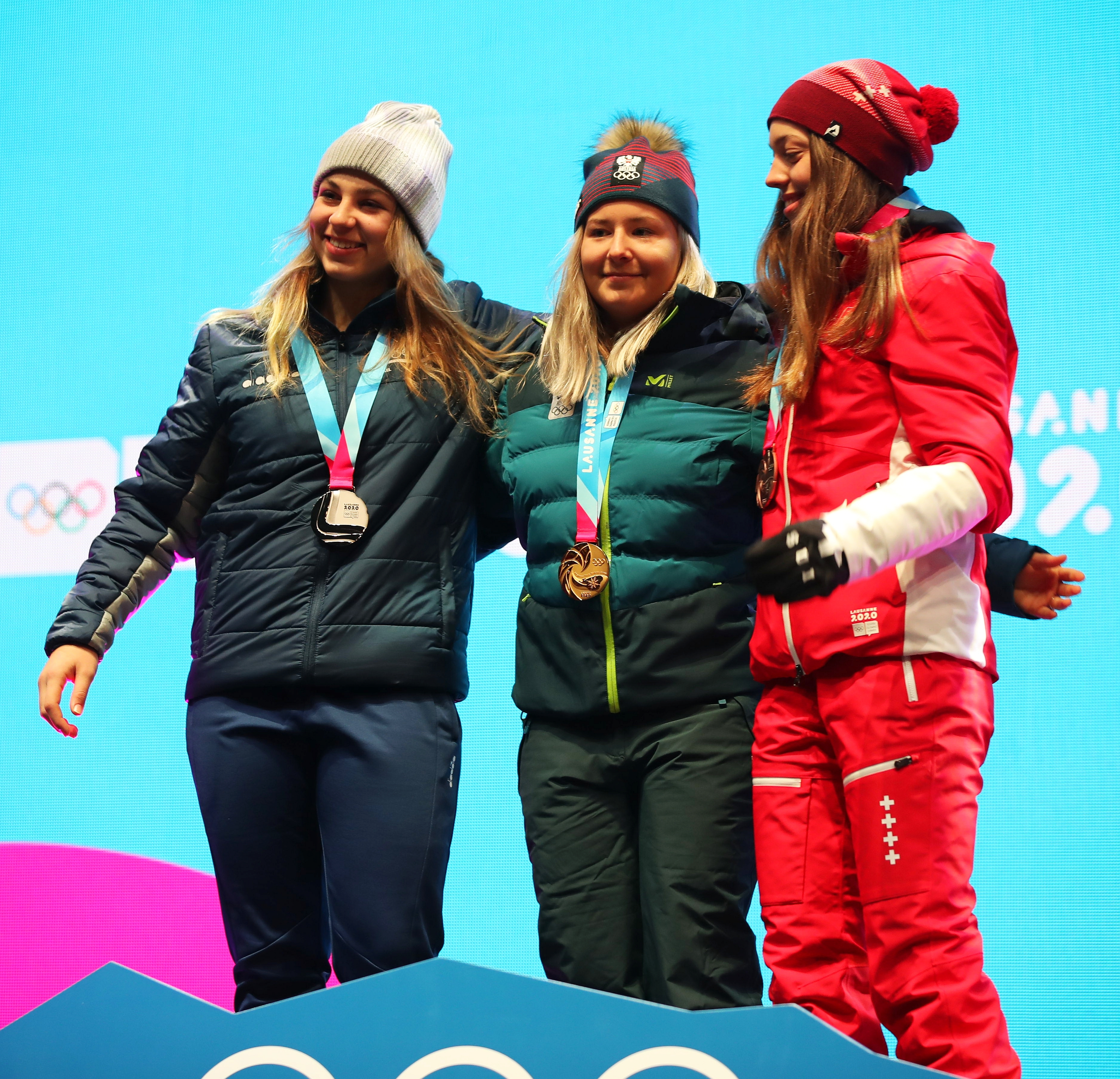 Medal ceremony of Alpine Skiing – Women's Alpine Combined at the 2020 Winter Youth Olympics in Lausanne on 11 January 2020.